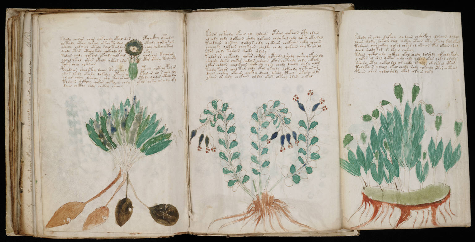 A page from the mysterious Voynich manuscript, which is undeciphered to this day.